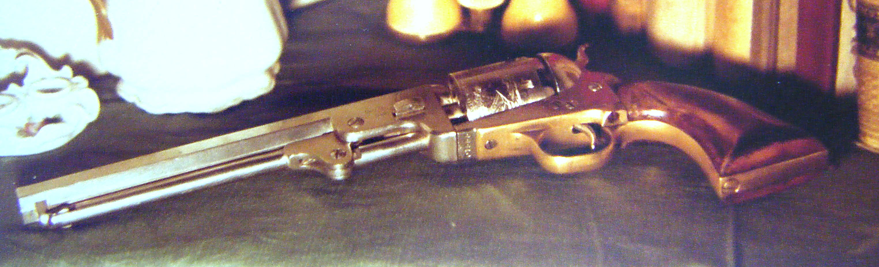 Colt Navy revolver silver plated